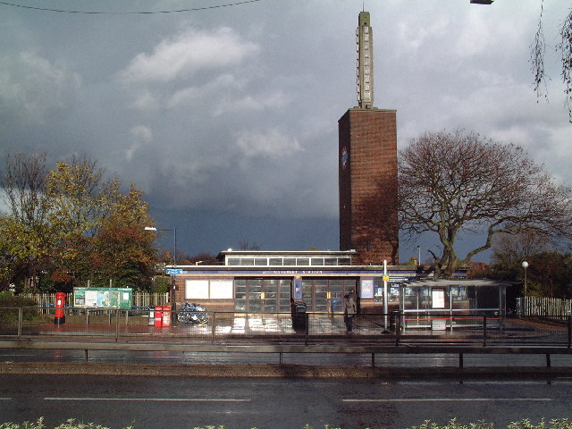 Osterley tube Station. On the Piccadilly line between Heathrow and central London. The very distinctive architecture is typical of tube stations designed between the wars.